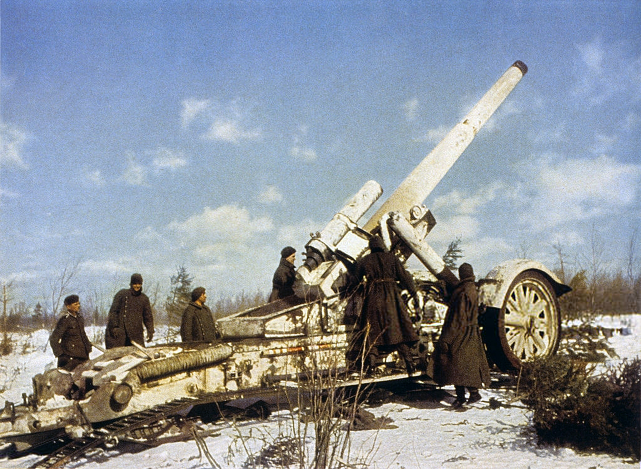 A German 21 cm Mörser 18 in winter camouflage in Russia.